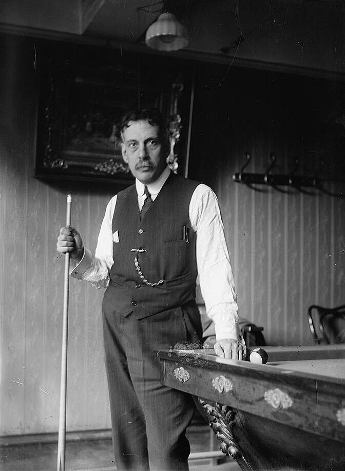 between 1910 and 1915